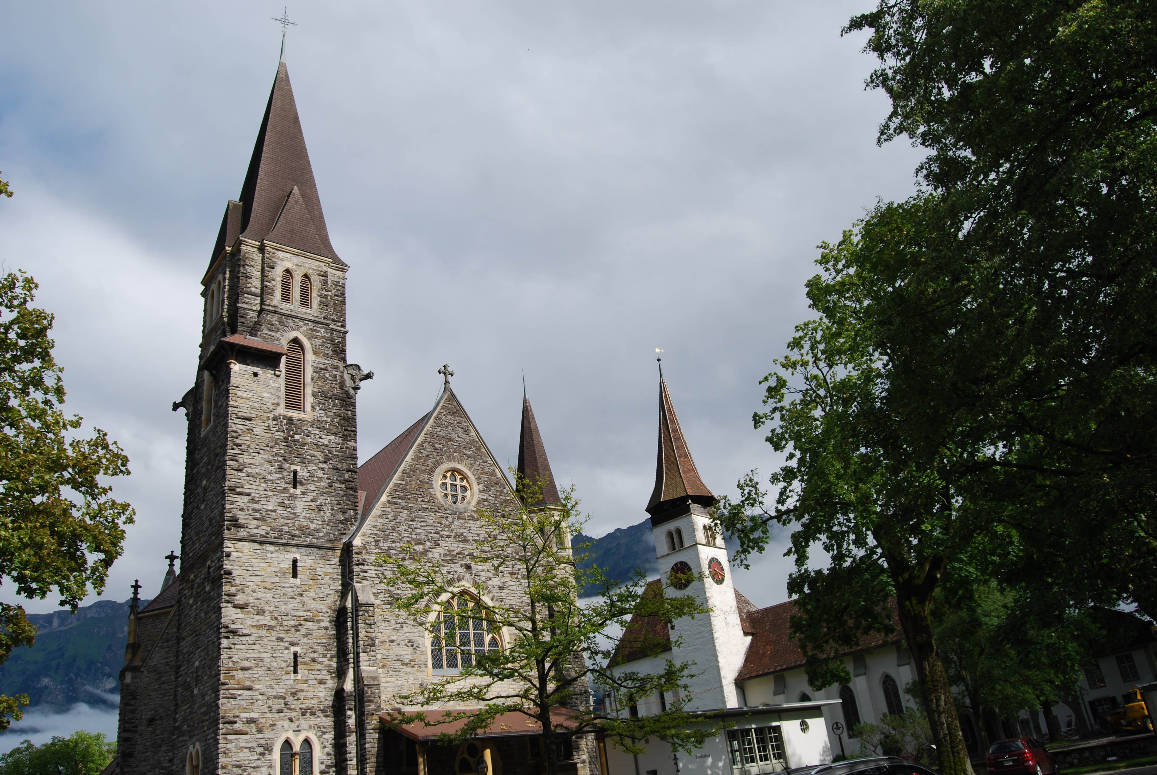 Catholic and protestant church of Interlaken, canton of Bern, Switzerland